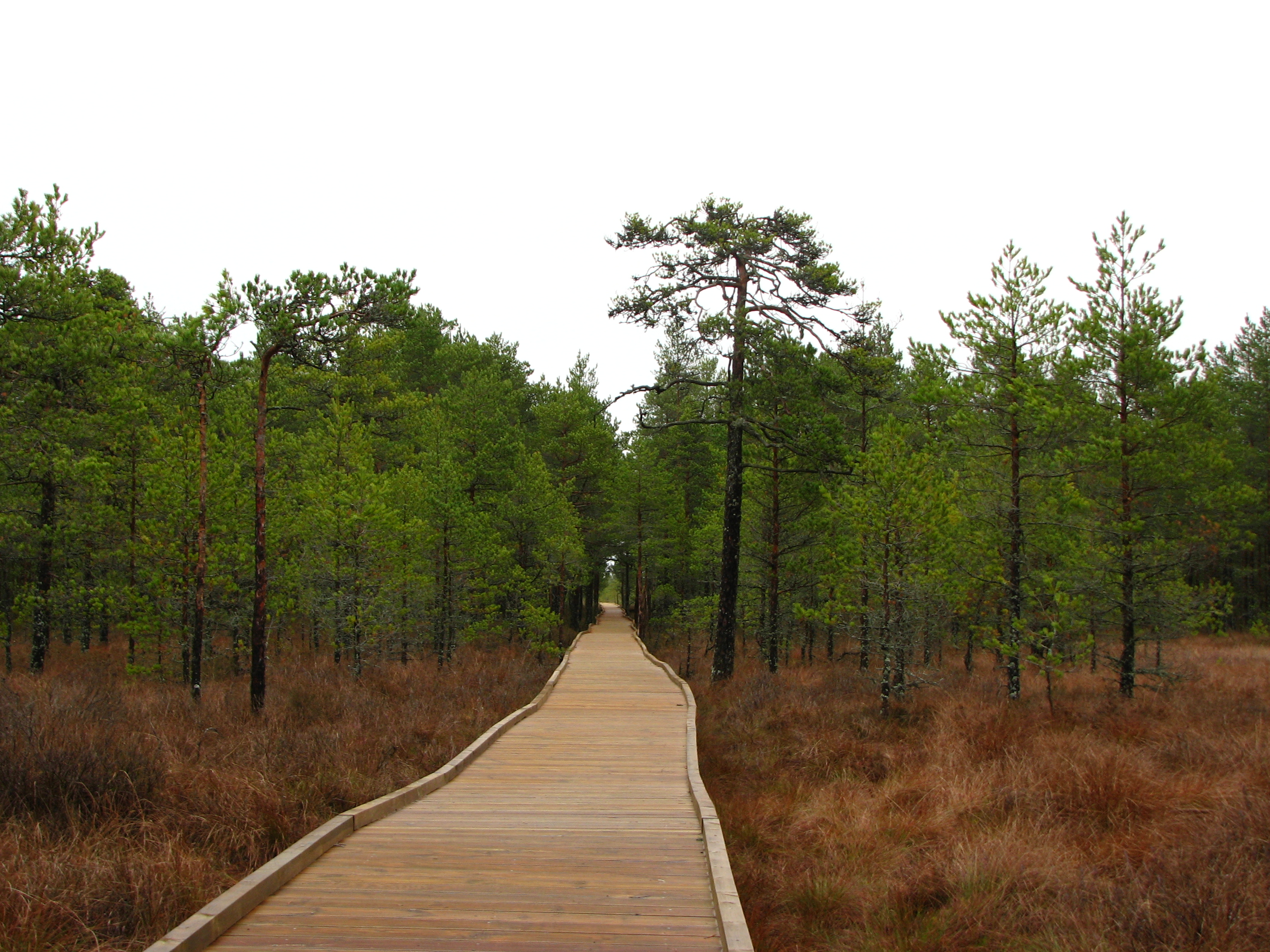 Partially renovated boardwalk in Viru raba, Estonia. Picture taken in November 2013.